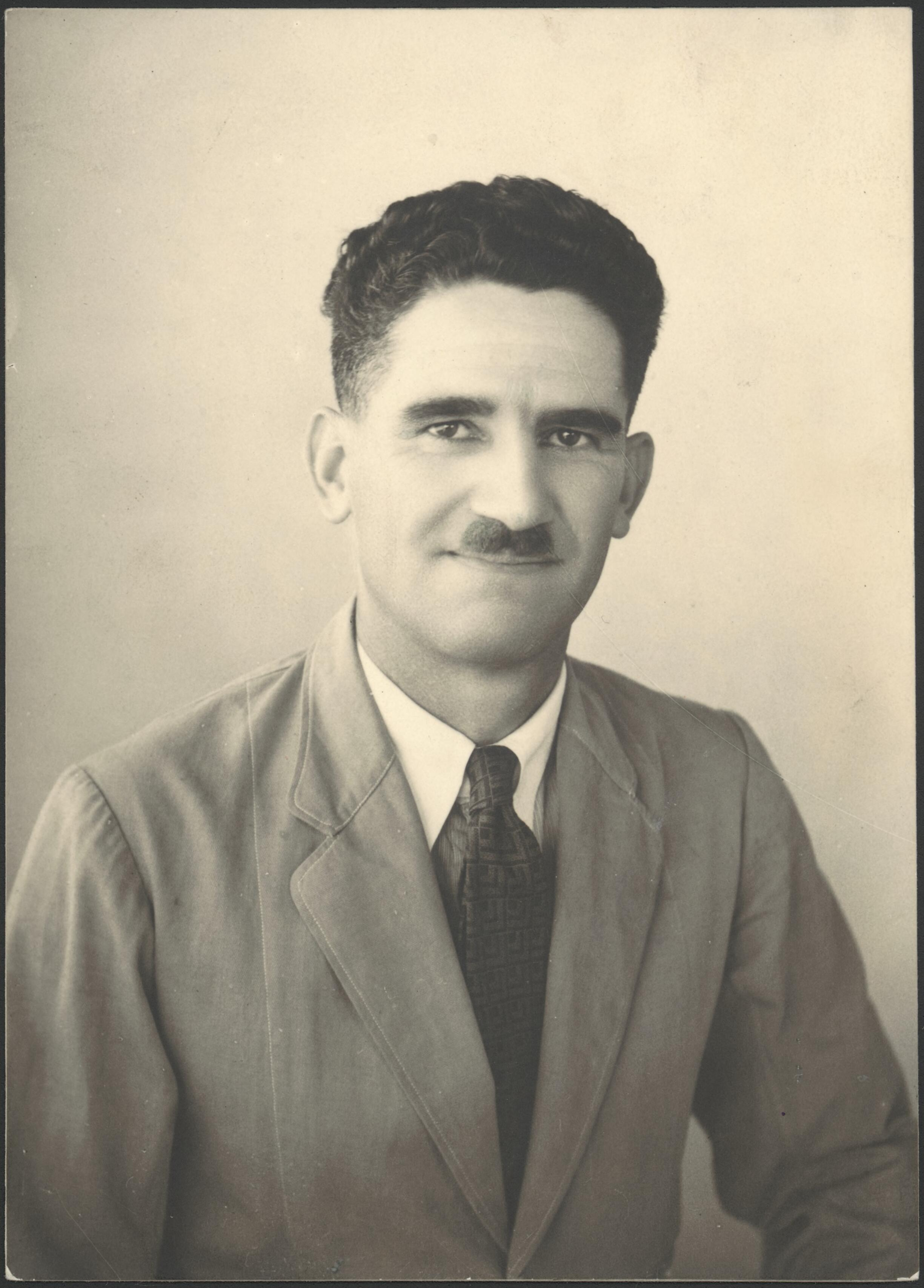 Australian politician Adair Blain